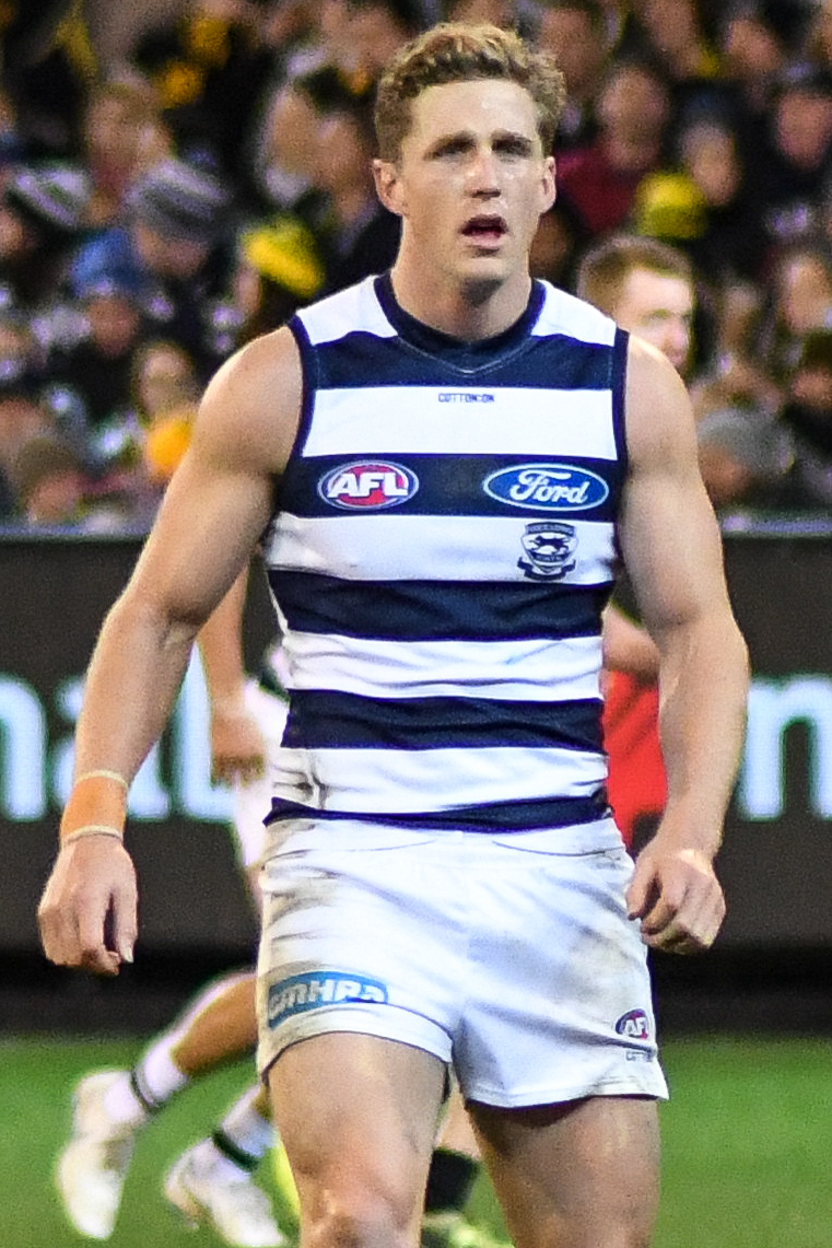 Scott Selwood of Geelong during the 2018 AFL round 20 match between Richmond and Geelong at the Melbourne Cricket Ground on Friday, 3 August 2018 in Melbourne, Victoria.